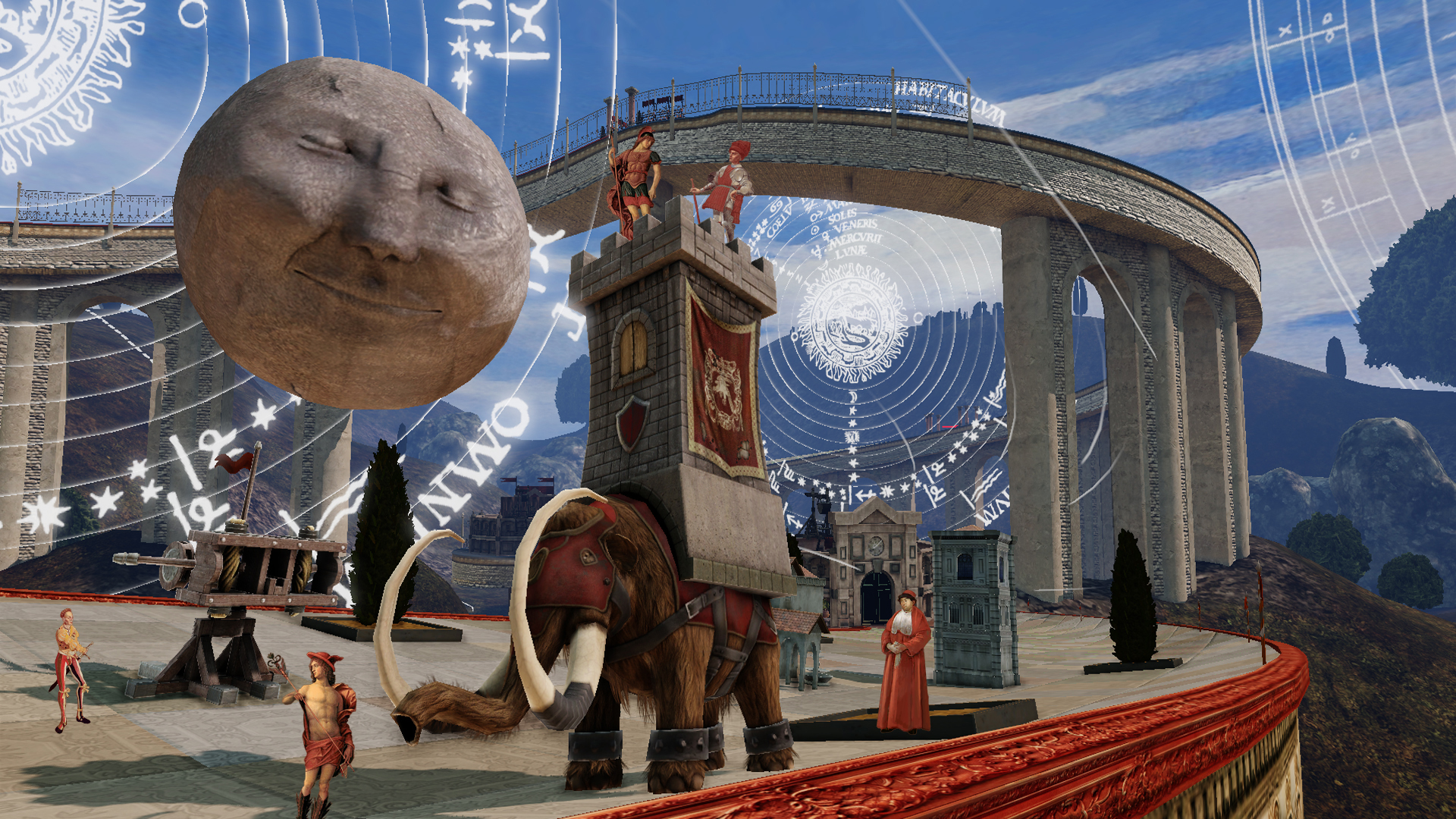 Rock of Ages screenshot, developed by ACE Team and released in 2011. This screenshot draws from Renaissance art. The game is built on Unreal Engine 3.